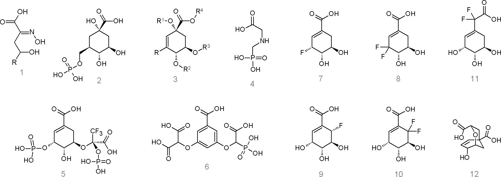 Inhibitors